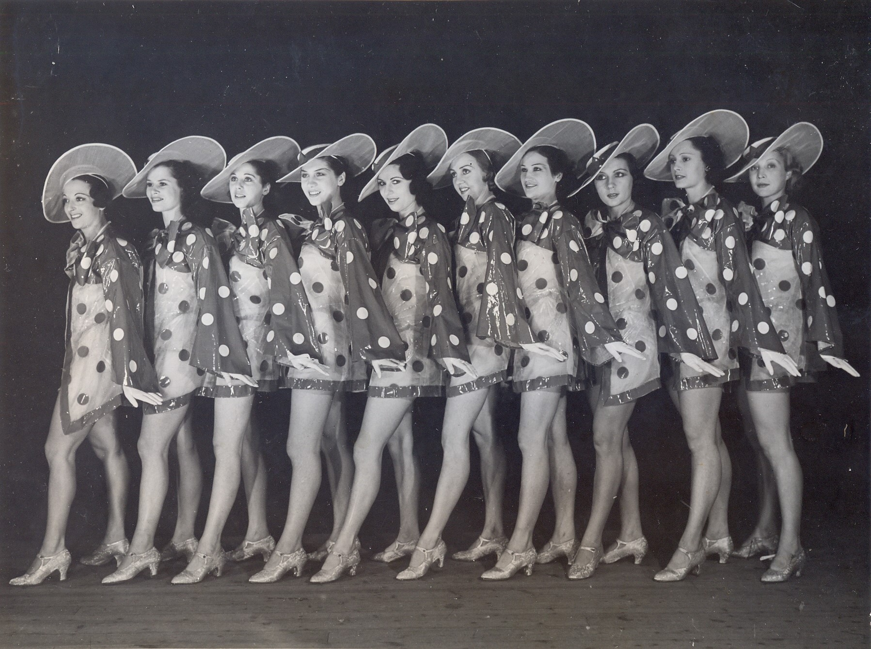 Bulgarian ballerina Feo Mustakova-Genadieva, Folies Bergère, 1934.